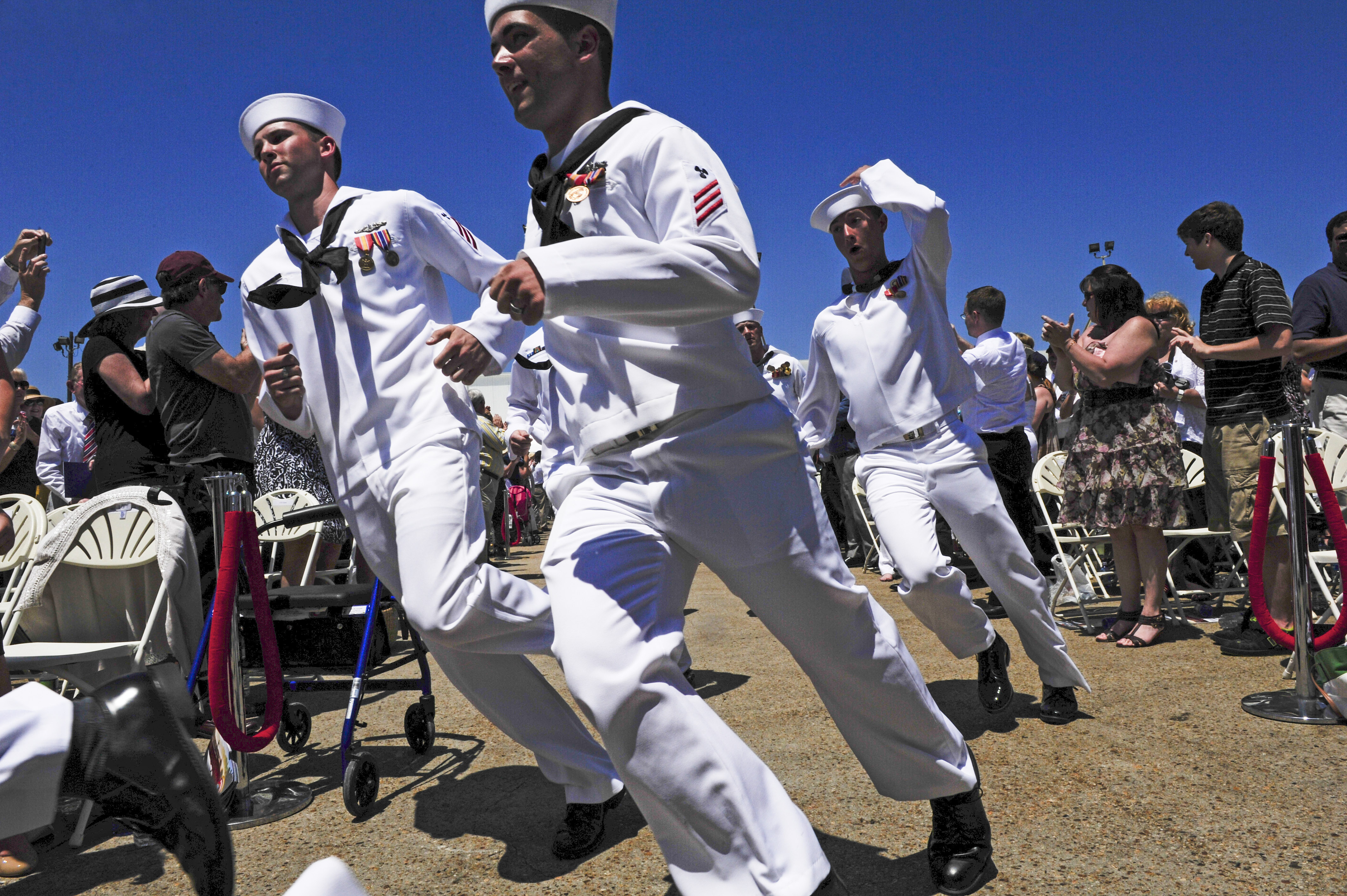 PASCAGOULA, Miss. (June 2, 2012) Sailors assigned to the Virginia-class attack submarine USS Mississippi (SSN 782) run to man the ship and bring it to life during the commissioning ceremony for the Navy's ninth Virginia-class attack submarine. (U.S. Navy photo by Mass Communication Specialist 1st Class Peter D. Lawlor/Released) 120602-N-WL435-461 Join the conversation navylive.dodlive.mil